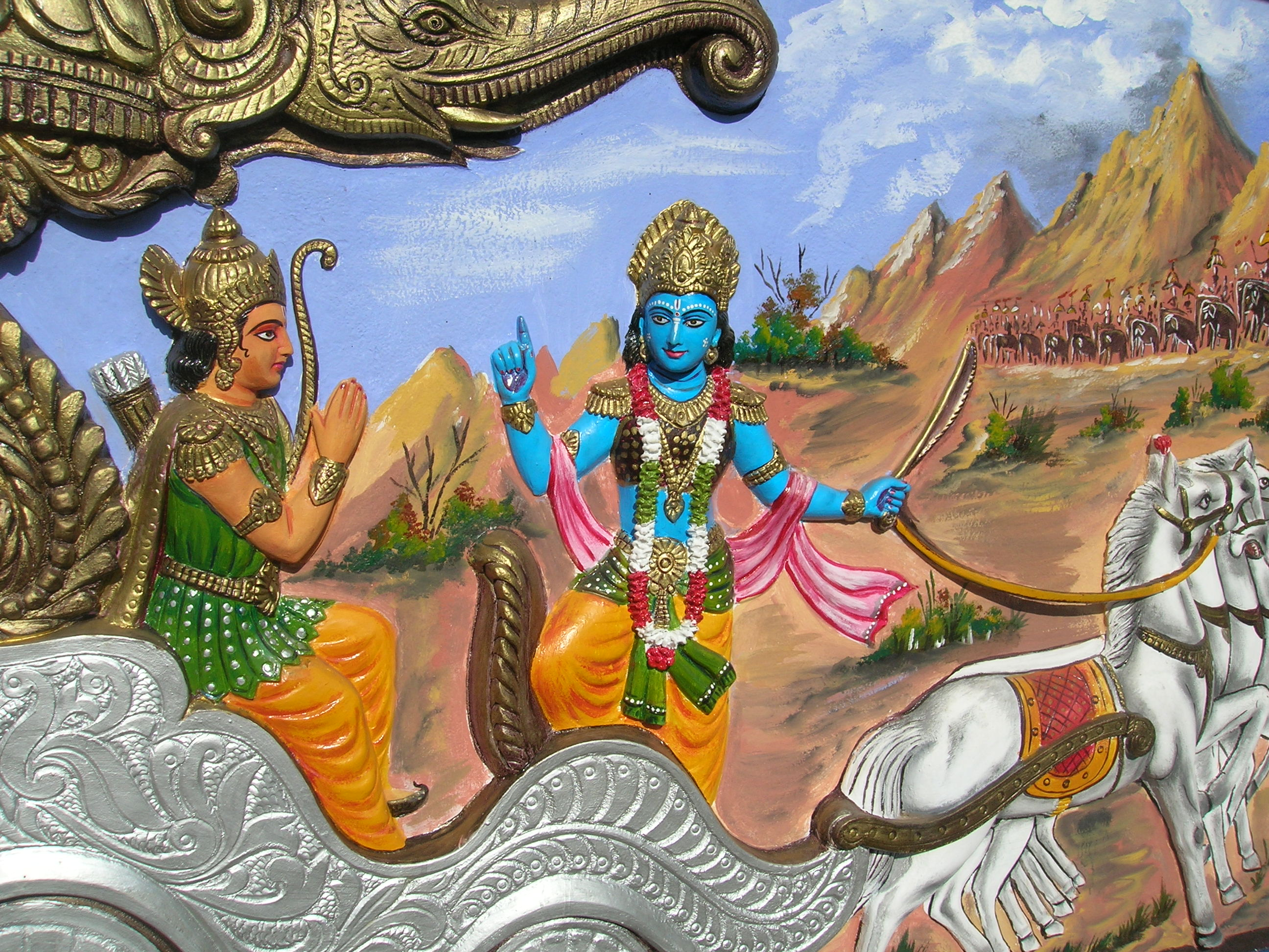 Krishna teaching Arjuna, from Bhagavata Gita, House decoration in Bishnupur, West Bengal, India.